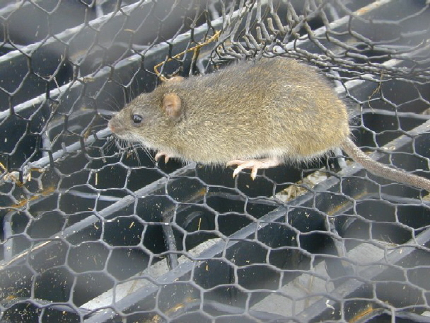 Marsh rice rat (Oryzomys palustris) in Paynes Prairie, Florida. This is presumably the subspecies O. p. natator, distinguished by more reddish fur.